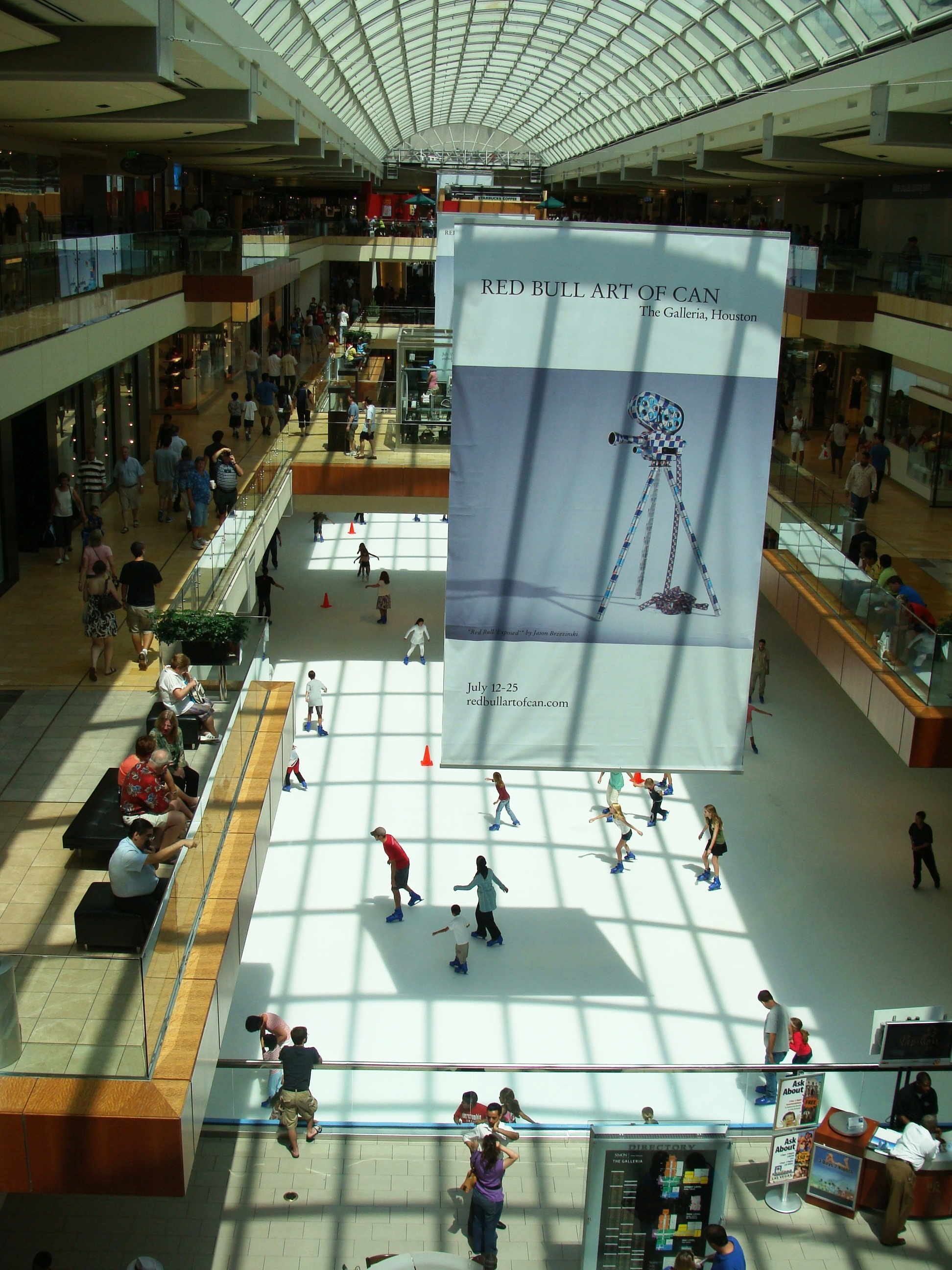 The Houston Galleria